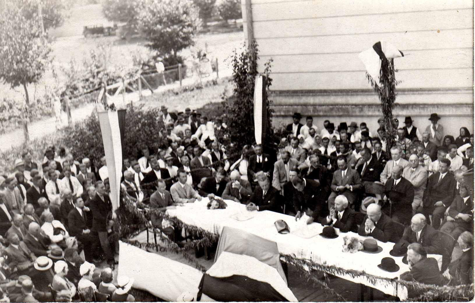 A photo from the founding of the Matica slovenská in the Bački Petrovac. Museum of vojvodinian Slovaks, inventory number 2935.